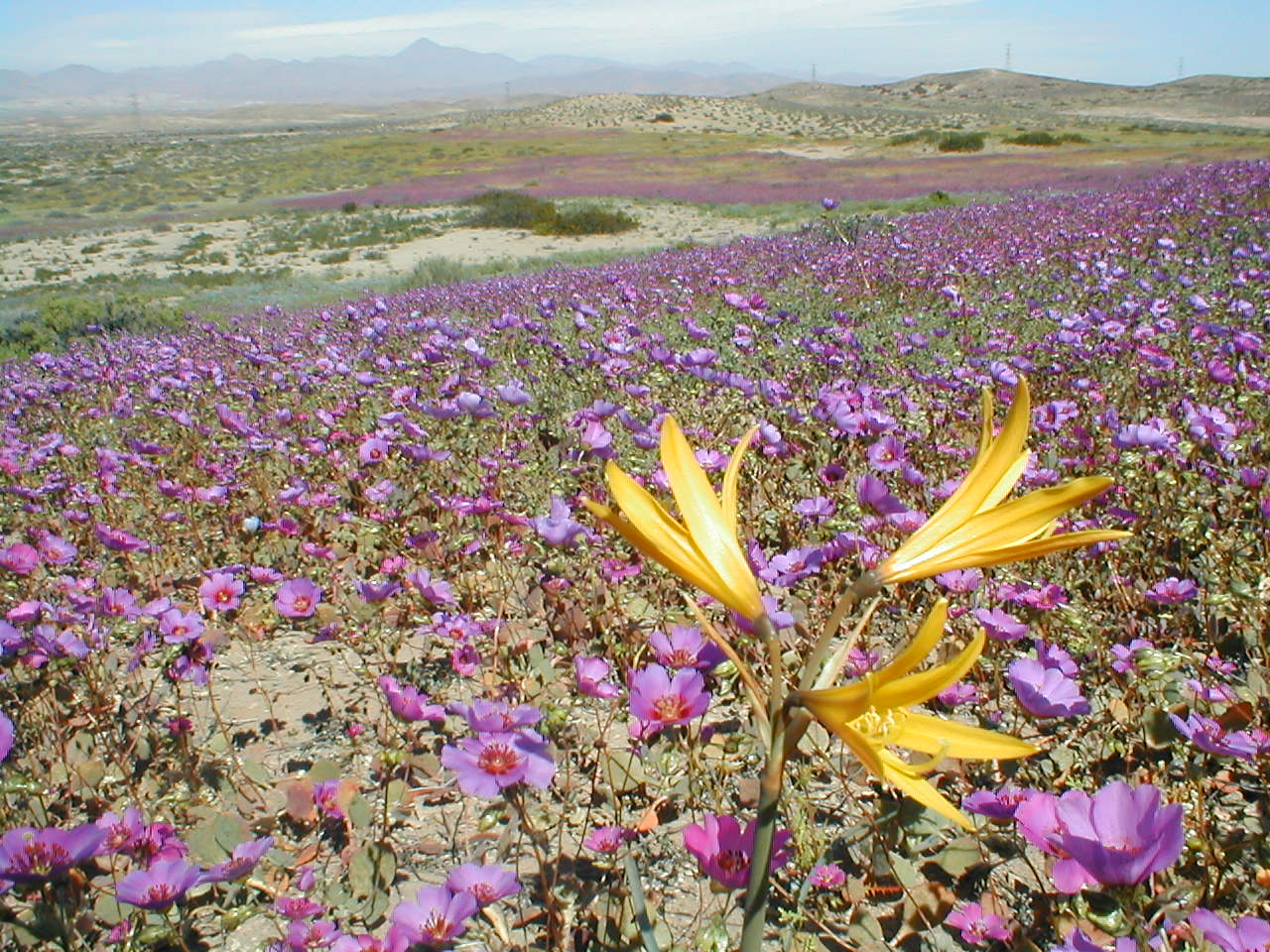 Flowered desert, at the Atacama desert in Chile